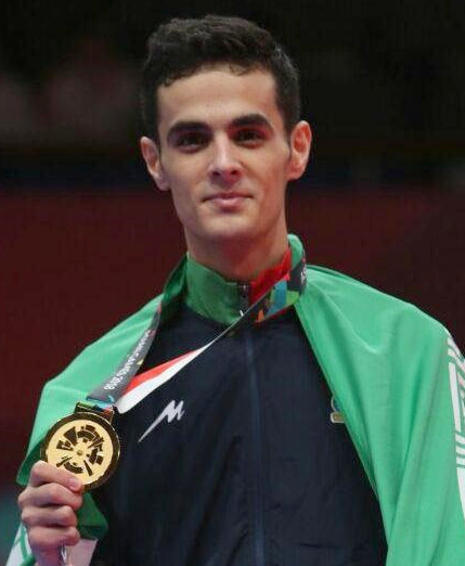 Taekwondo at the 2018 Asian Games – Men's 63 kg podium